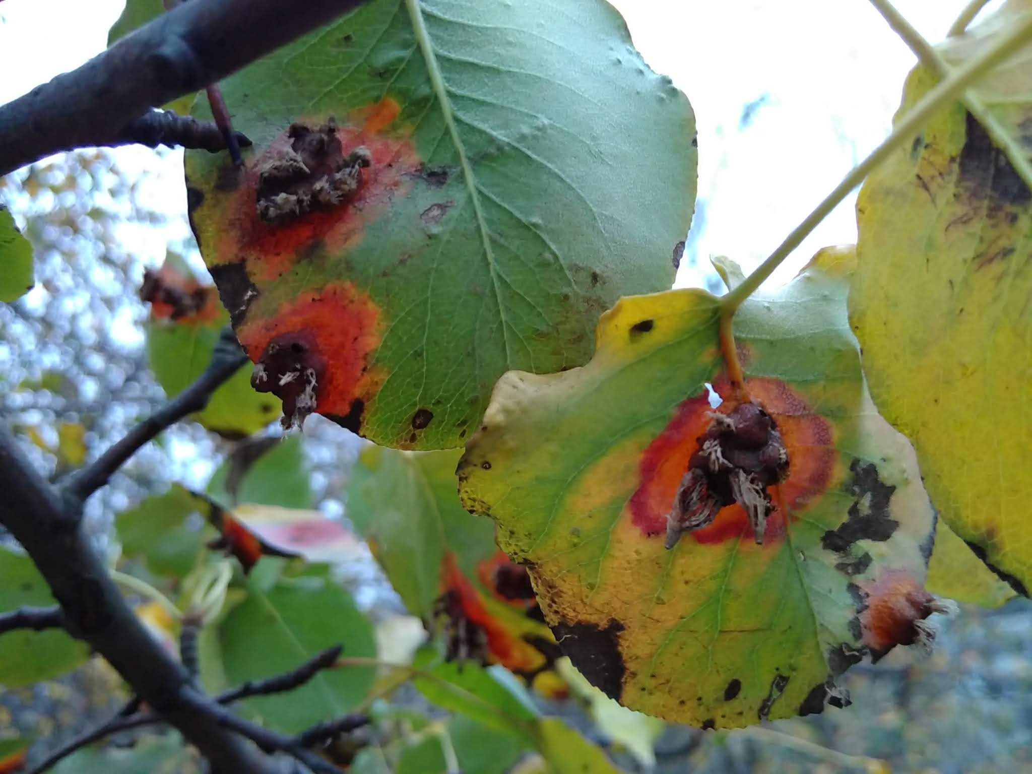 Pear rust as observed in November on a wild pear tree in Prague